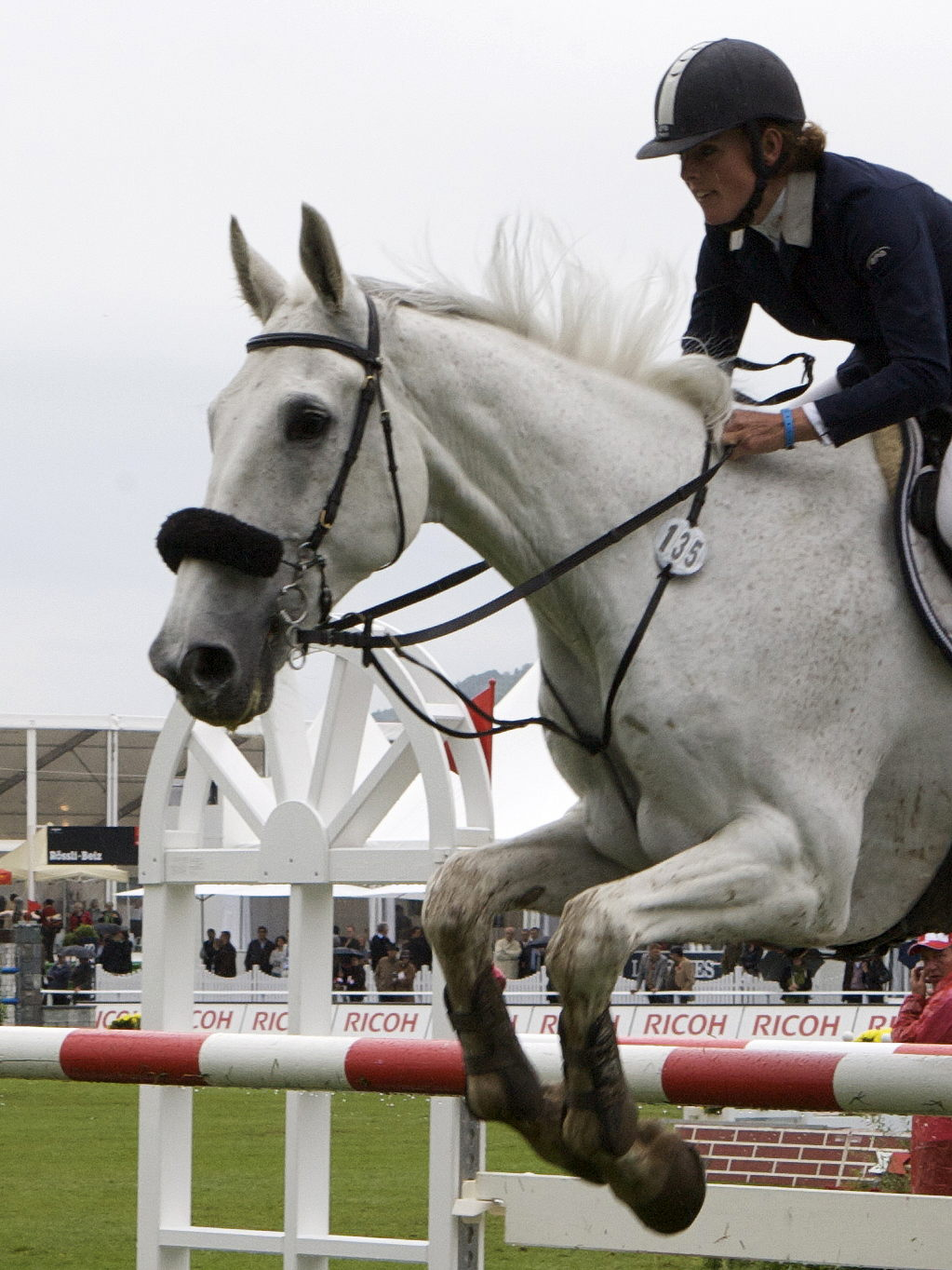 background: The "Hauptstadion" of the CSIO Schweiz - in front: Simone Wettstein (Switzerland) with Cool Man